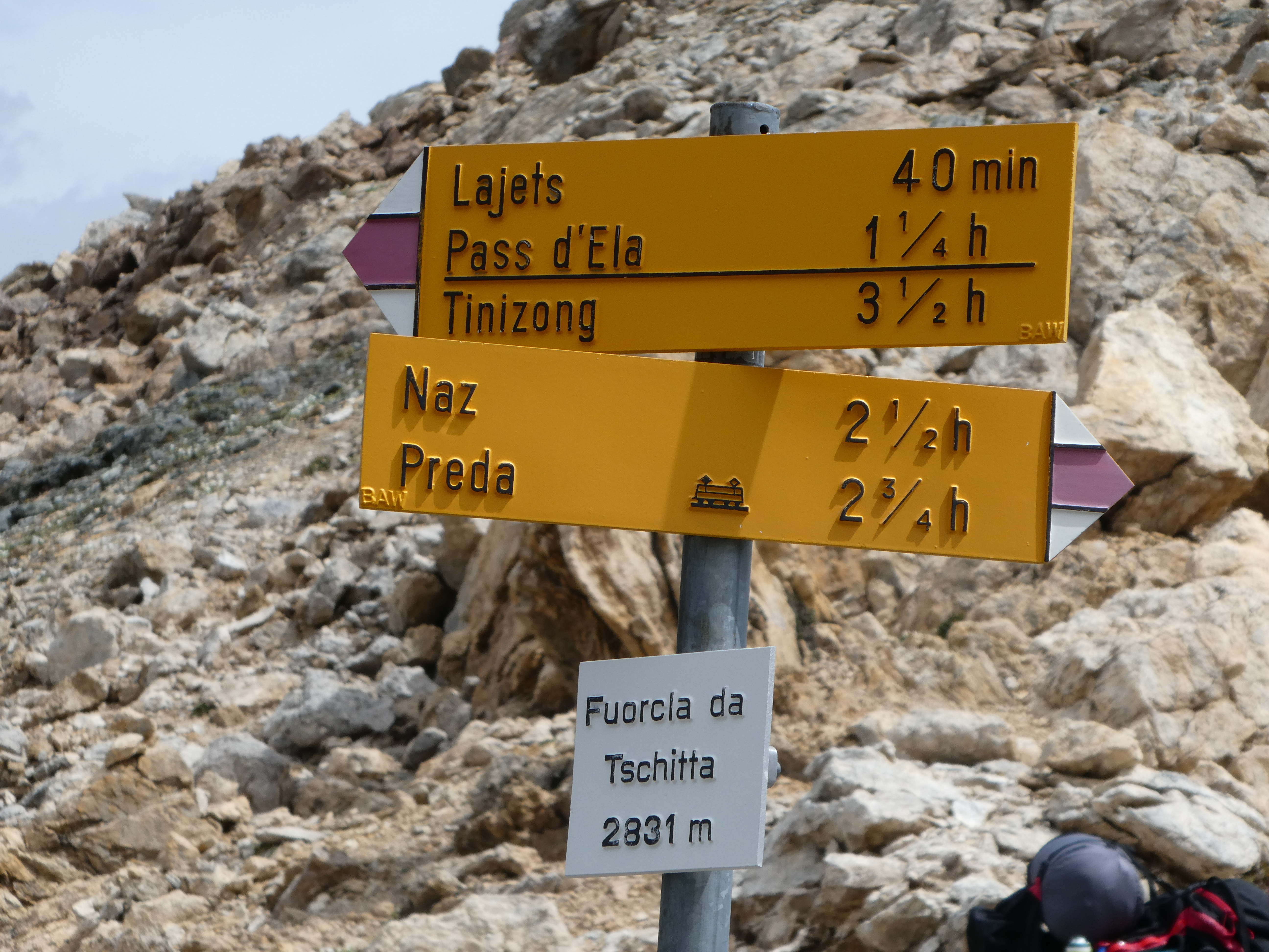 Fingerpost on Furschela da Tschitta (Surses - Bergün/Bravuogn, Grison, Switzerland)